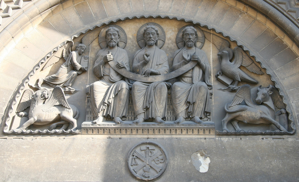 Abbaye aux-dames Sainte-Trinité Caen - Tympanum sculpted by Adolphe-Victor Geoffroy-Dechaume circa 1862